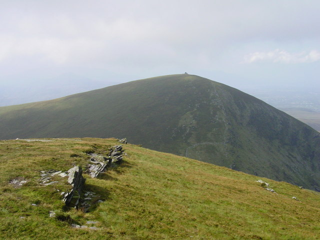 The western Pap from the eastern Pap The western Pap seen from the eastern Pap. A easy walk connects the two summits.